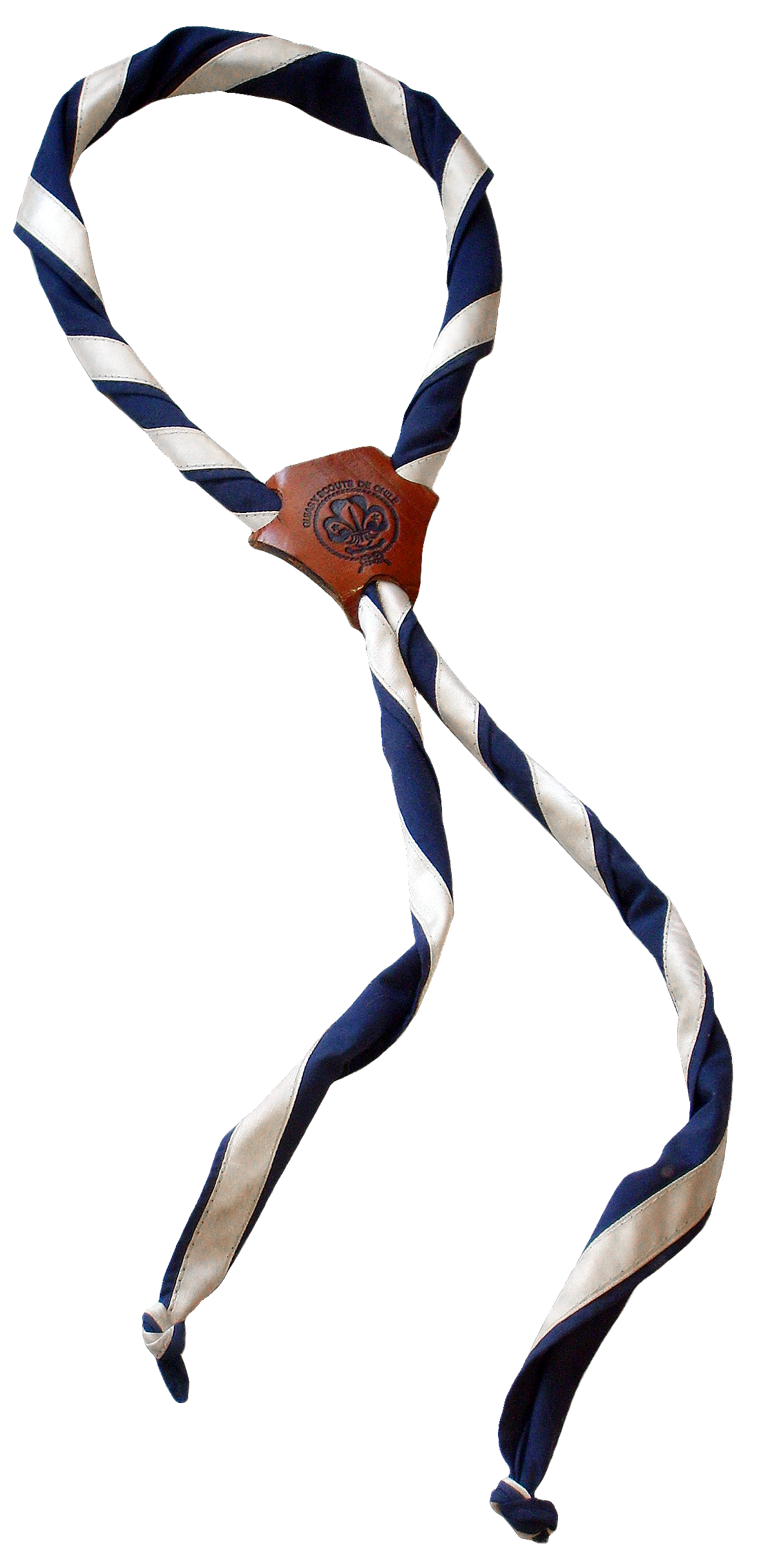 Scouting scarf of Chile.